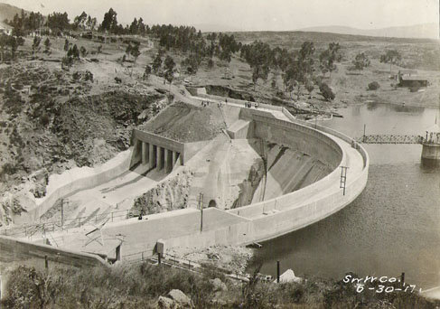 Sweetwater Dam on the Sweetwater River in San Diego County, California, photographed 1917 after repairs (new spillway structure is on the far bank)